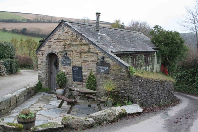 Trefanny Hill Inn I don't think one will be sitting outside today in the cold. This is a very small Inn situated at Trefanny Hill which is a small hamlet of cottages in the countryside.